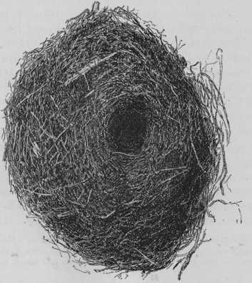 Rock Wren (Xenicus gilviventris) nest from Walter Buller's A History of the Birds of New Zealand. 2nd ed. (London, 1888). page 250.